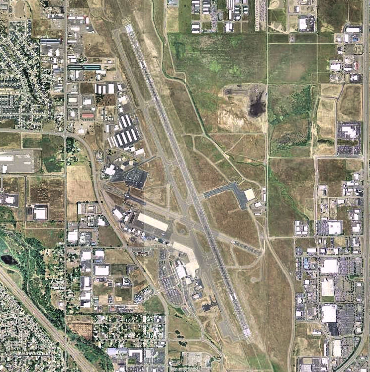 USGS digital orthophoto of Rogue Valley International-Medford Airport in Oregon